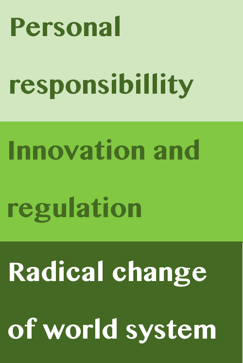 A chart of the ideological shades of the Greens